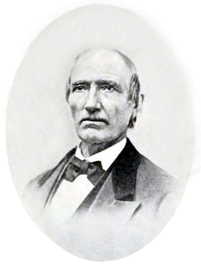 Illustration in History of Iowa From the Earliest Times to the Beginning of the Twentieth Century